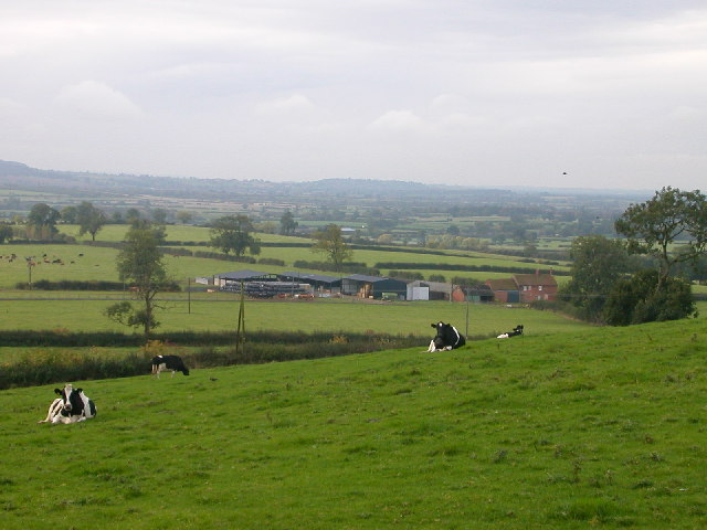 Braunston - Cleve's Hill. Cattle on hill near to Tiltup's Holt Farm